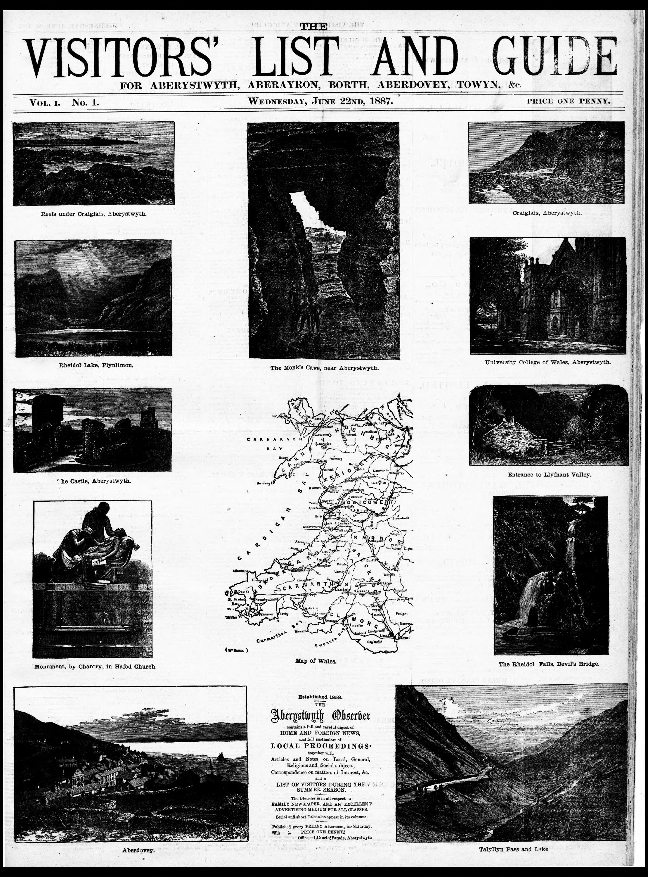 Front page of the earliest surviving copy of the Welsh newspaper The Visitor's List and Guide - Aberystwyth Area